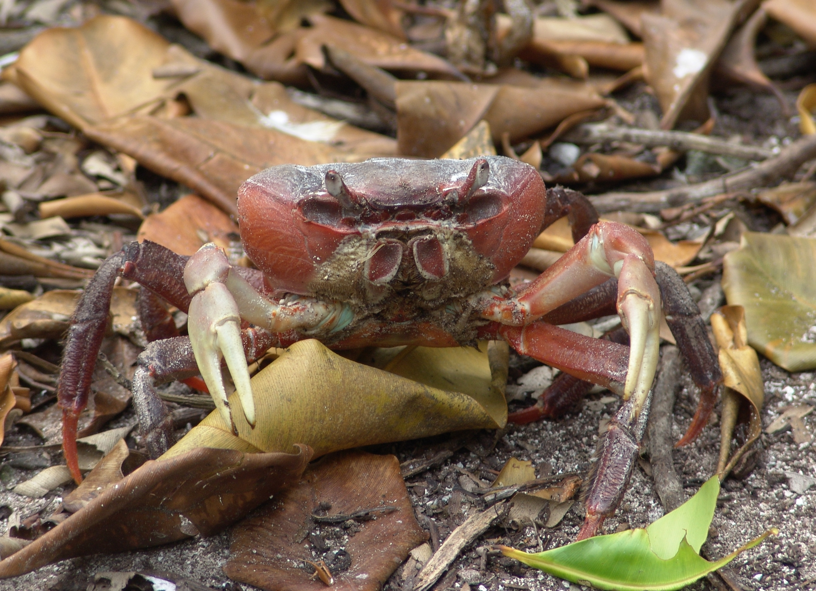 Diego Garcia (Chagos Archipelago) British Indian Ocean Territory